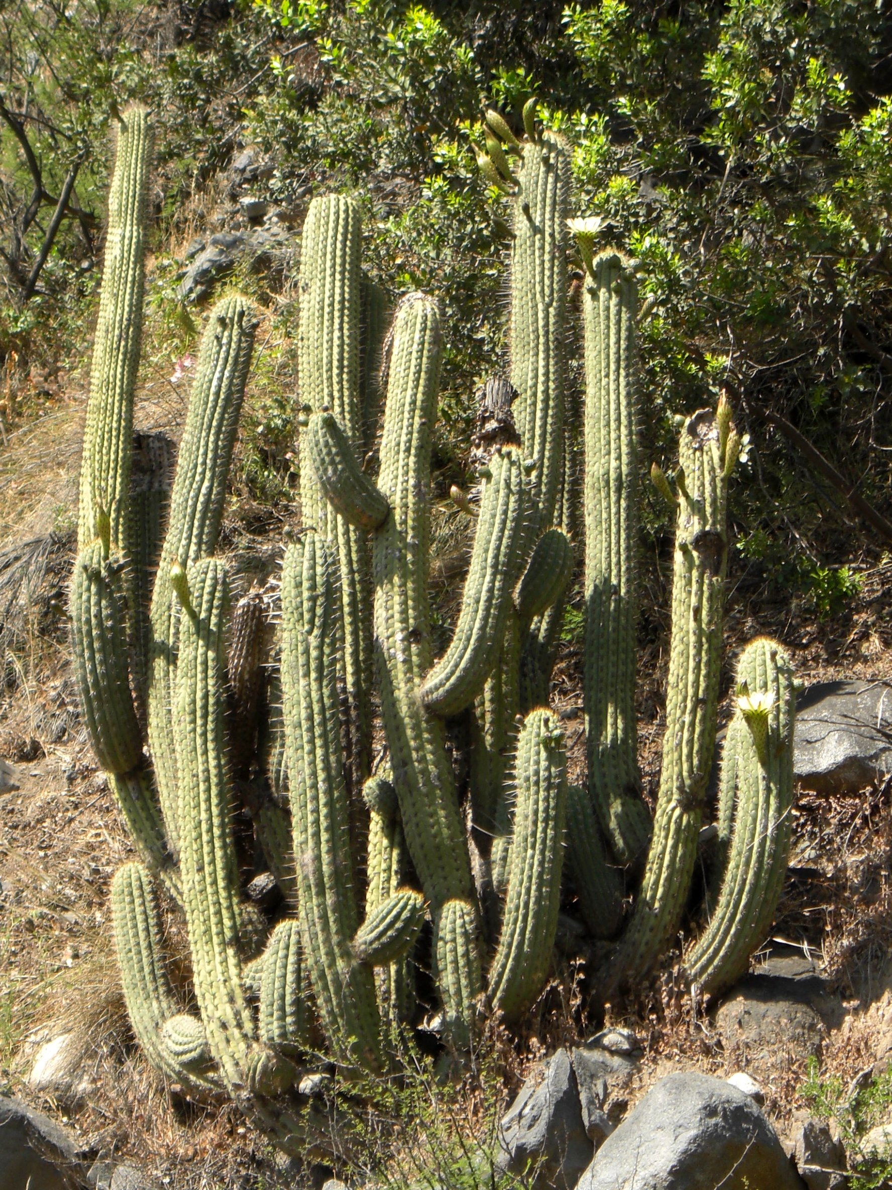 Echinopsis chiloensis (Colla) Friedrich & G.F. Rowley 20081122.8 valley east of Santiago, Chile